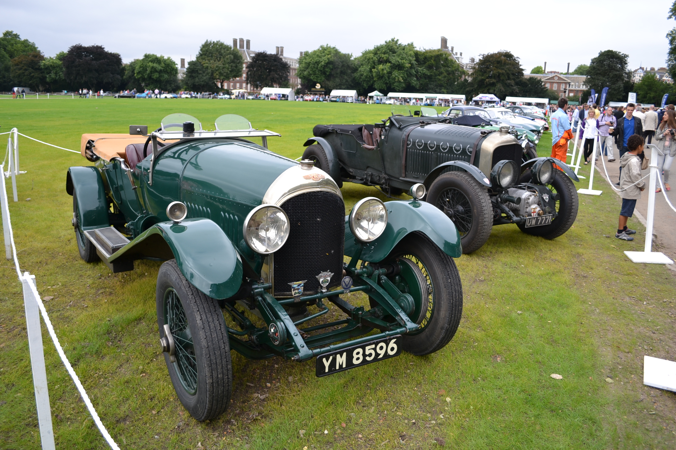 Chelsea Auto Legends 2012 3-litre delivered April 1926 original body 2-seater by H J Mulliner Chassis SR1407 Speed model Engine SR1409 Reg YM 8596 source of info The 4½-litre car in the background (UW 7771) was delivered in January 1930 with a saloon body by Harrison